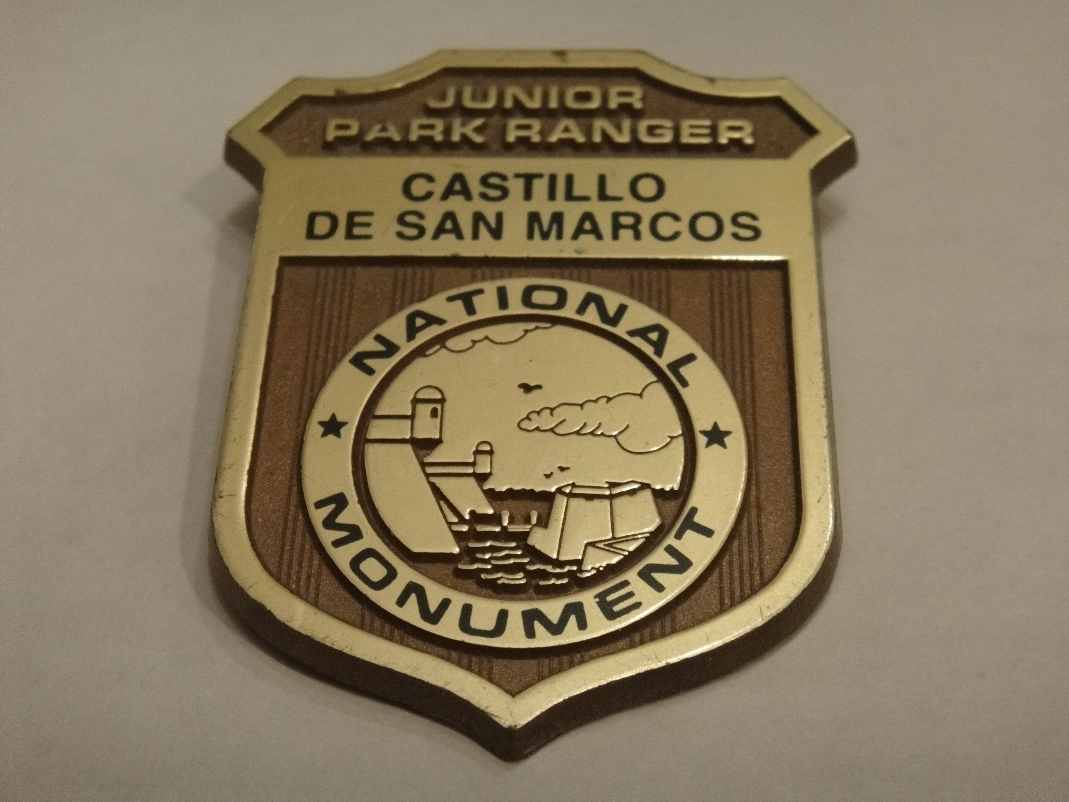 Castillo de San Marcos National Monument Junior Park Rangers badge.